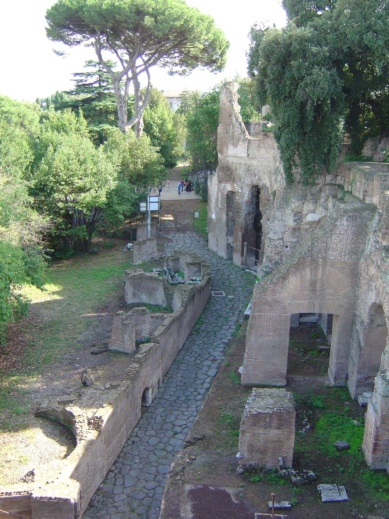 Ancient Roman street on the side of the Palatine Hill, Rome see Clivus Palatinus: the name applied for convenience (it has no ancient warranty) to the road/path ascending to the Palatine from the Sacra Via (q.v.) near the Arch of Titus. A small piece of its pavement belonging to the time of Sulla was found at about 29 metres above sea-level, and considerable remains of that laid by Augustus at a slightly higher level have been found near the Arch of Titus. That of Nero was slightly higher again and was about 17 m.